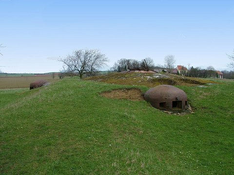 Block 2 at the work of Ferme Chappy